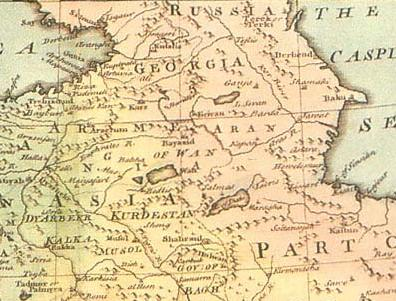 This historical regional map of the Middle East illustrates Asien territories of the ottoman Empire as well as Persian Safavid Empire. Created by a British engraver named Emanuel Bowen between 1744 and 1752. Also showing the Persian Gulf in the map.